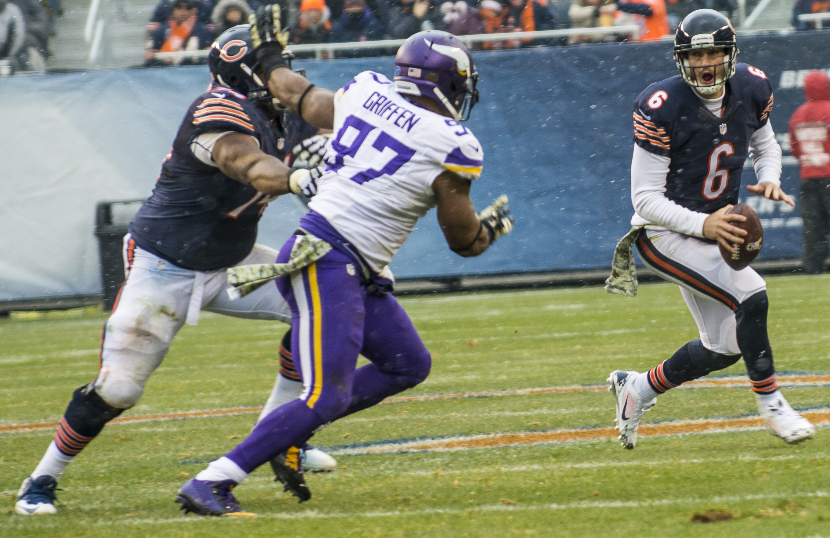 Minnesota Vikings defensive end Everson Griffen while rushes Chicago Bears quarterback Jay Cutler